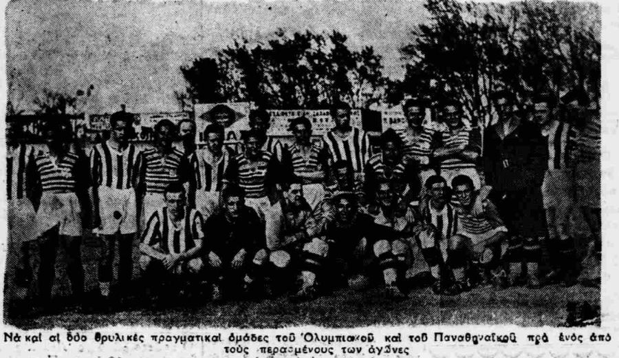 Olympiakos and Panathinaikos players before a 1935 or earlier match